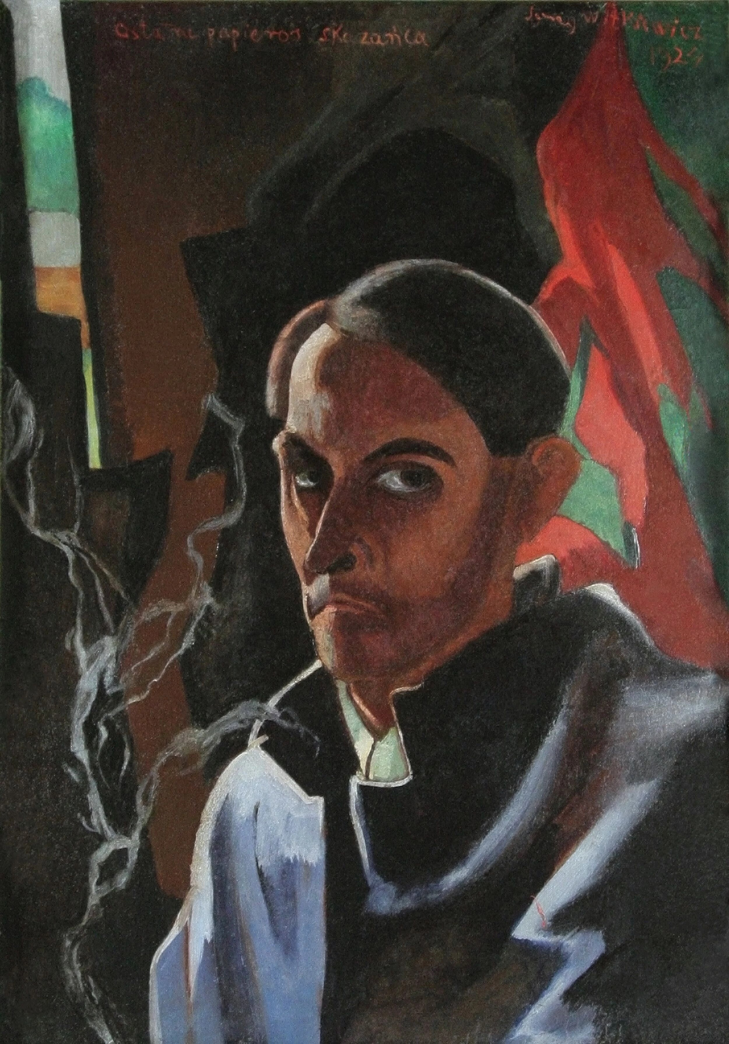 Stanisław Ignacy Witkiewicz self-portrait 1924 - last cigarette of a condemned to death penalty